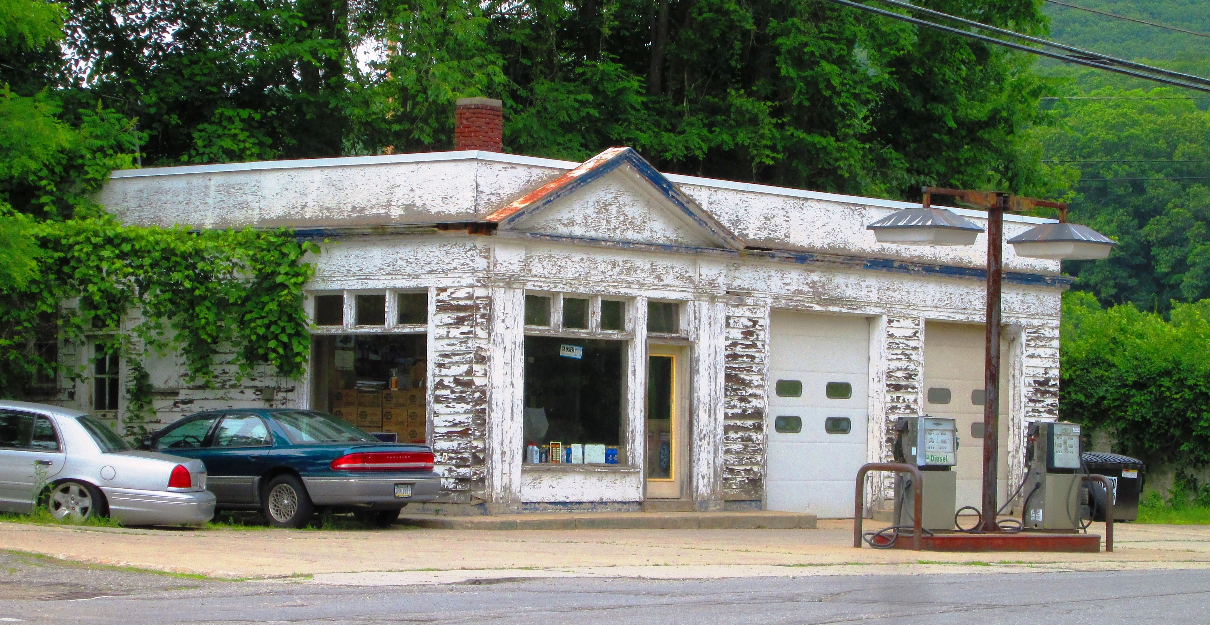 The gas station at Bridge and Island Streets in Bellows Falls, Vermont was built c.1935 in the Colonial Revival style. It was listed on the National Register of Historic Place in 1990.